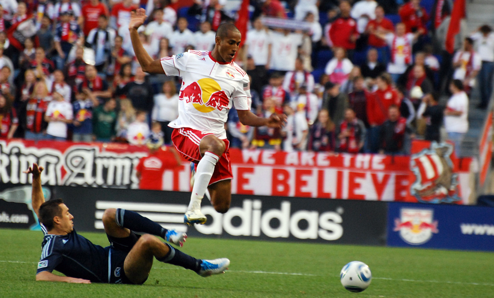 Costa Rican footballer Roy Miller. Photo: April 30, 2011.